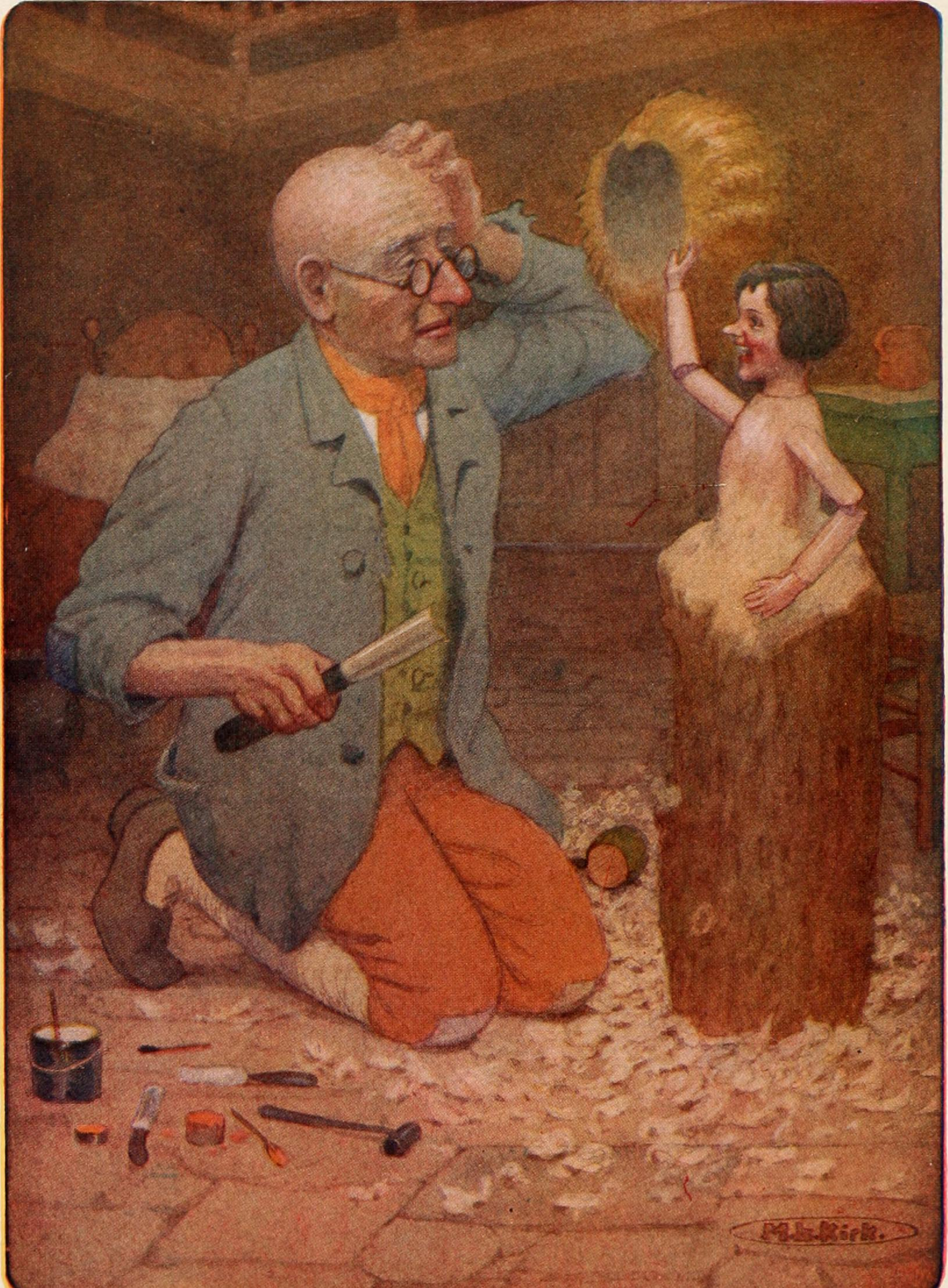 Title: Pinocchio Year: 1916 (1910s) Authors: Collodi, Carlo, 1826-1890 Subjects: Publisher: J.B. Lippincott company Text Appearing Before Image: LITTLE SINGER. BY JOHANNA SPYRI. 41 CARROTS. BY MRS. MOLESWORTH.LITTLE ROBINSON CRUSOE OF PARIS. BY EUGENIE FOA.CHILDREN OF THE ALPS. BY JOHANNA SPYRI.RIP VAN WINKLE AND THE LEGEND OF SLEEPY HOLLOW. BY WASHINGTON IRVING.DORA. BY JOHANNA SPYRI.VINZI. BY JOHANNA SPYRI.HEIDI. BY JOHANNA SPYRI.MAZLI. BY JOHANNA SPYRI.CORNELLI. BY JOHANNA SPYRI.A CHILDS GARDEN OF VERSES. BY ROBERT Louis STEVENSON.THE LITTLE LAME PRINCE AND OTHER STORIES. BY Miss MULOCK.GULLIVERS TRAVELS. BY JONATHAN SWIFT.THE WATER BABIES. BY CHARLES KlNGSLEY. PINOCCHIO. BY C. COLLODI.ROBINSON CRUSOE. BY DANIEL DEFoE.THE CUCKOO CLOCK. MRS. MOLESWORTH.THE PRINCESS AND THE GOBLIN. BY GEORGE MACDONALD.THE PRINCESS AND CURDIE. BY GEORGE MACDONALD.AT THE BACK OF THE NORTH WIND. BY GEORGE MACDONALD.A DOG OF FLANDERS. BY OUIDA.BIMBI. BY OuiDA. MOPSA, THE FAIRY. BY JEAN INGELOW.TALES OF FAIRYLAND. BY FERGUSON HUME.HANS ANDERSENS FAIRY TALES.THE SWISS FAMILY ROBINSON. Per Volume, $1.50 Ttf JfRW TtfcKPI-MI/.1 LI&iMRY ANDx »R L Text Appearing After Image: HE SAW HIS YELLOW WIG IN THE PUPPETS HANDpinocchio00coll